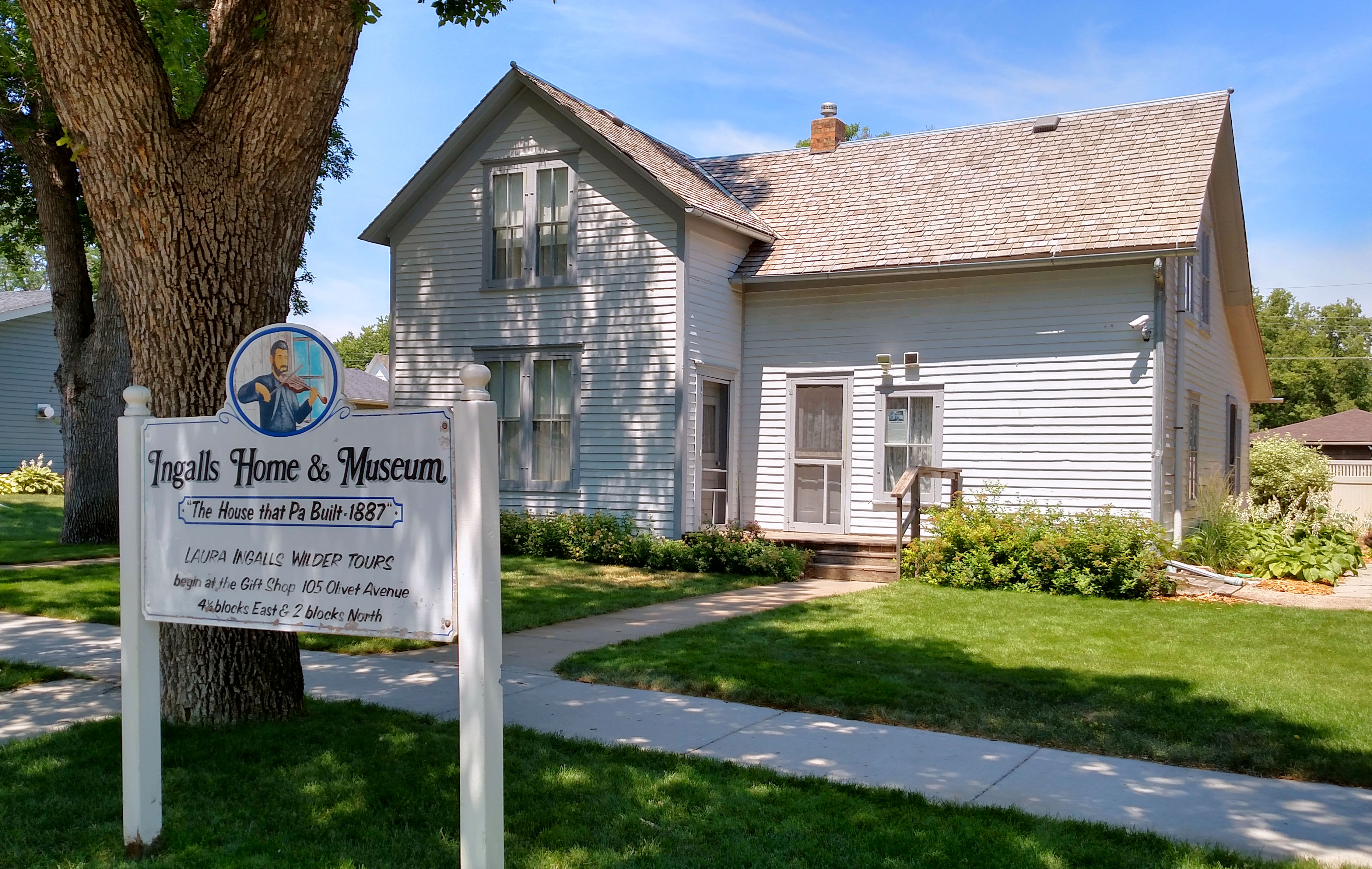 Permanent and final home of Charles and Caroline Ingalls, built between 1887 and 1889 by Charles in De Smet, SD. The house is known in Laura Ingalls Wilder's writings as "The House That Pa Built".